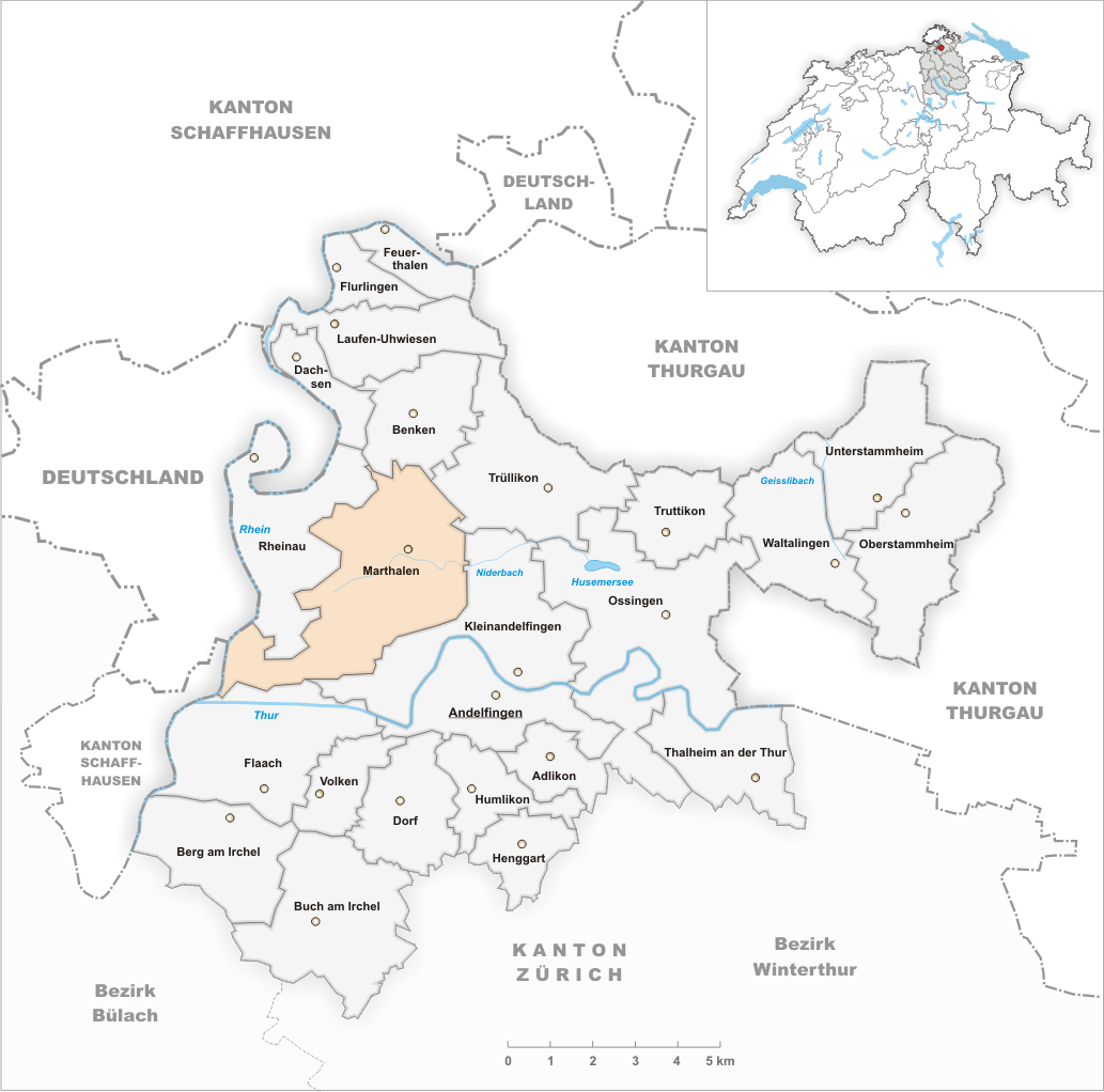 Municipality Marthalen